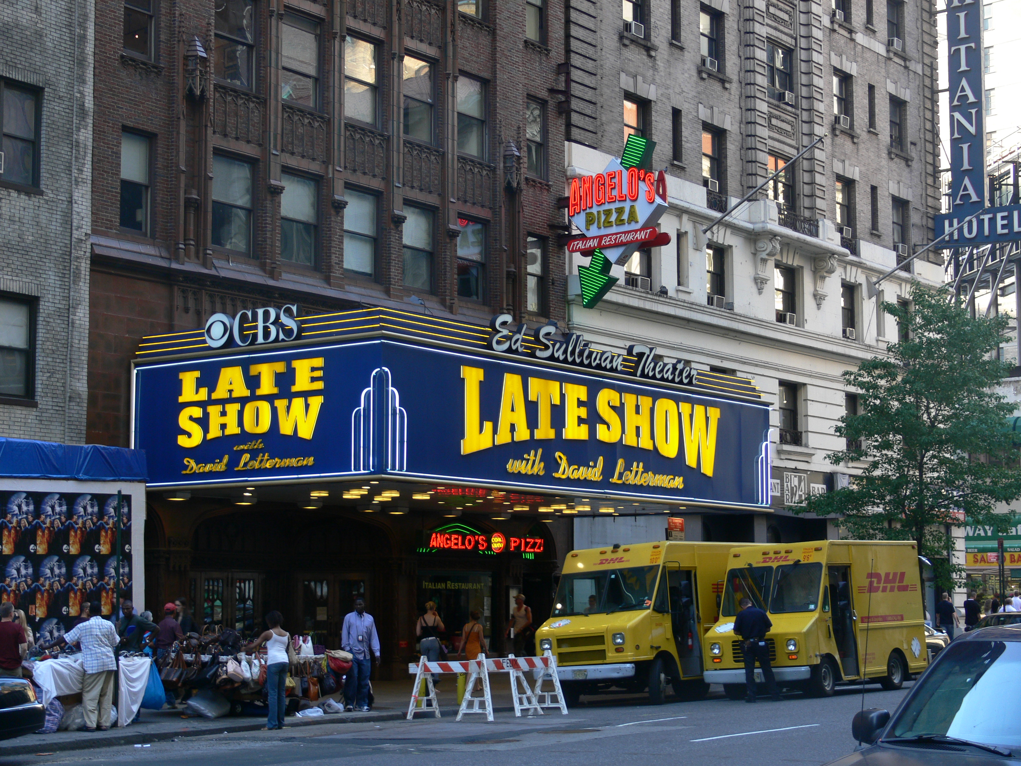 Ed Sullivan Theater (home to Late Show with David Letterman): 1697-1699 Broadway between West 53rd and West 54th Streets, Manhattan, New York City. At right: Ameritania Hotel (230 West 54th Street)